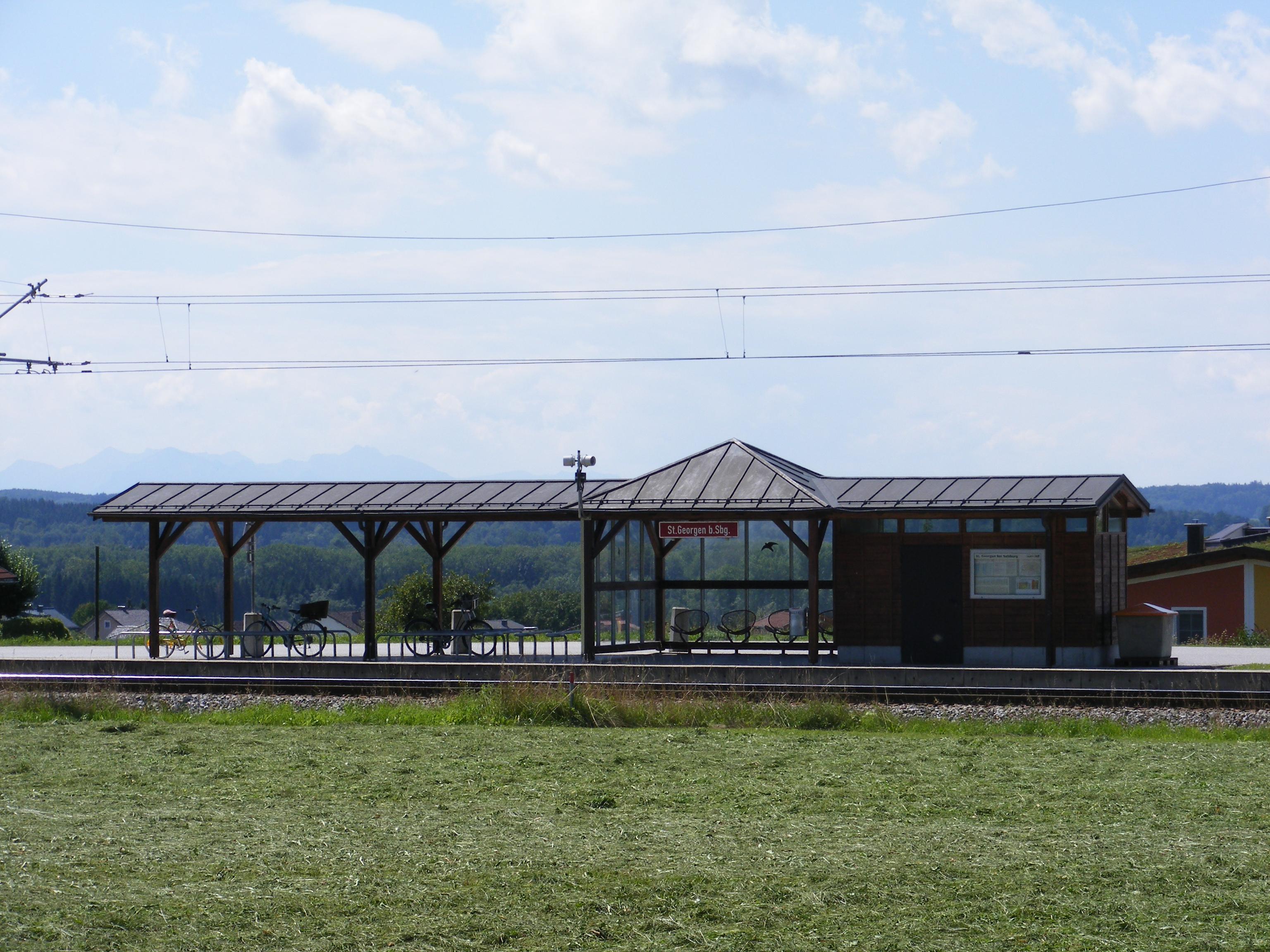 Train stop of a local railway line at St. Georgen bei Salzburg in the north of the state of Salzburg, Austria.